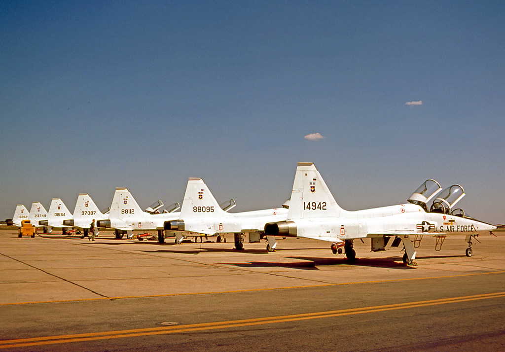 Northrop T-38A Talons of 560 Flying Training Squadron at Randolph AFB Texas in 1975